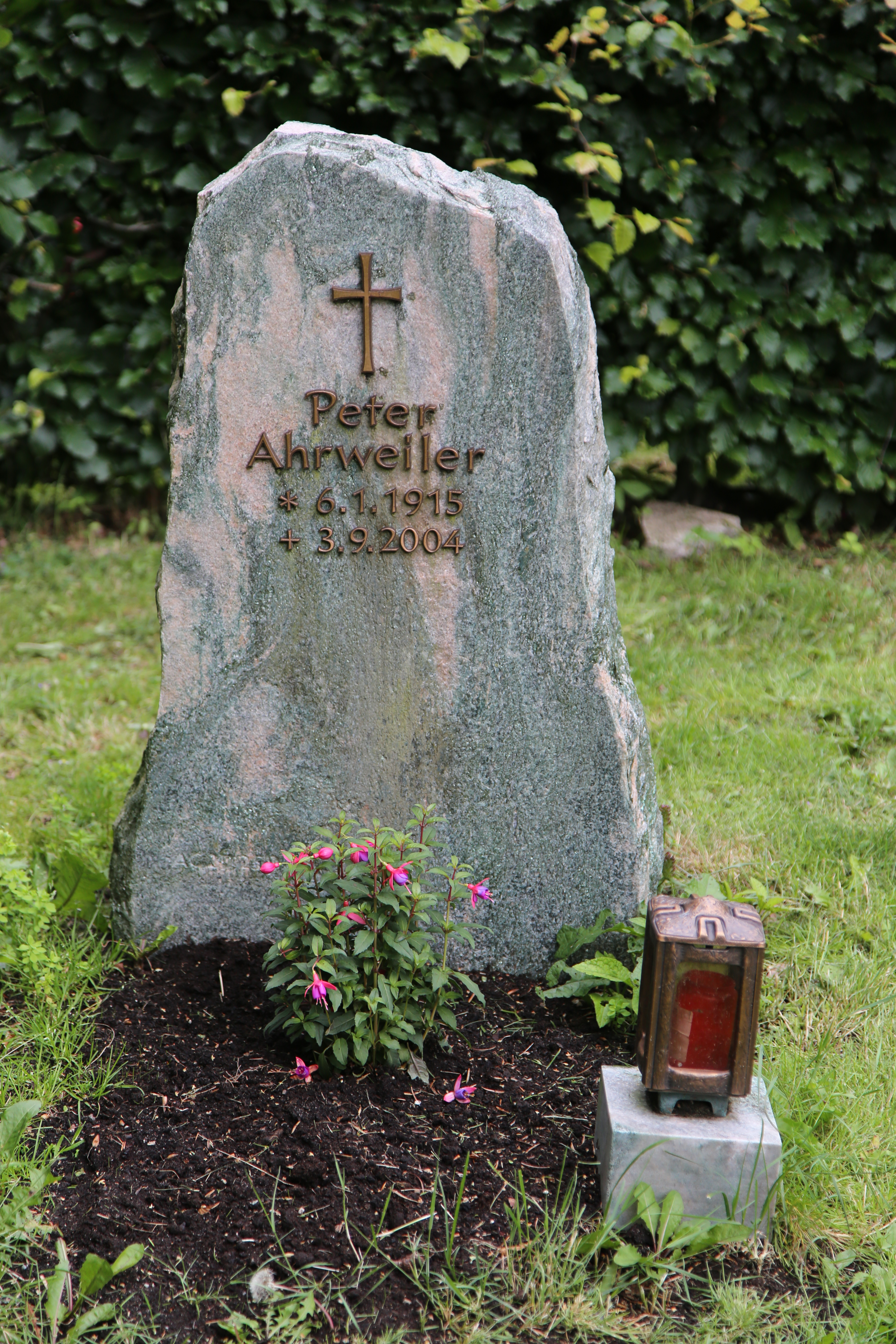 Grave of Peter Ahrweiler (January 6, 1915 in Krefeld - September 3, 2004 in Hamburg), German actor and theater director on Ohlsdorf cemetery, Hamburg